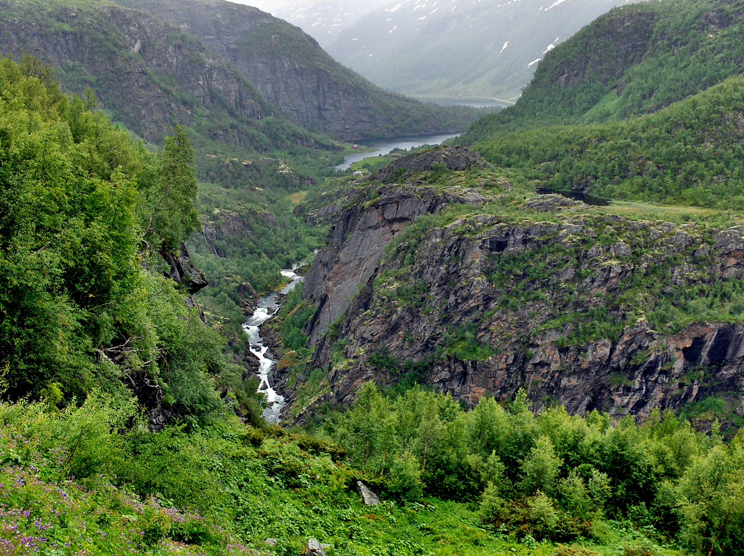 Wiew towards Nesbø farm, seen from Holmen in Aurlandsdalen, Aurland municipality, Sogn og Fjordane county, Norway.